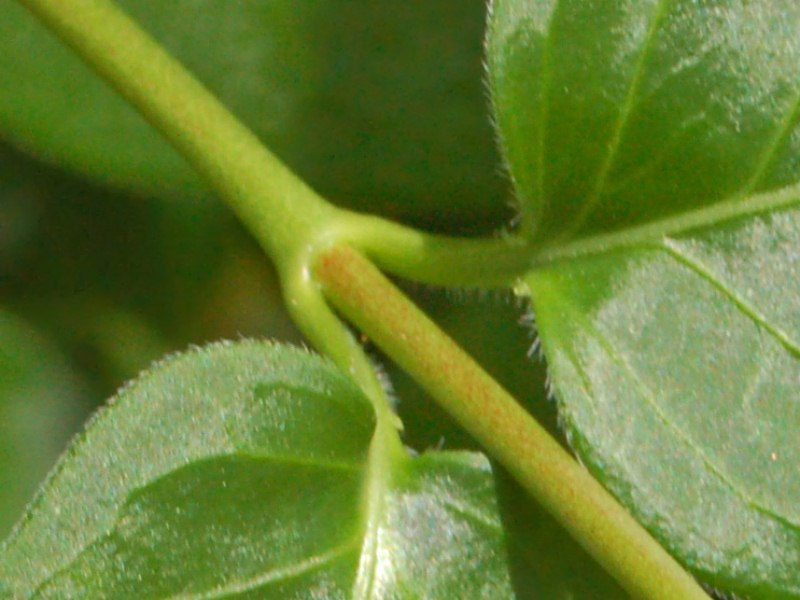 Vinca major - Genova, Italy